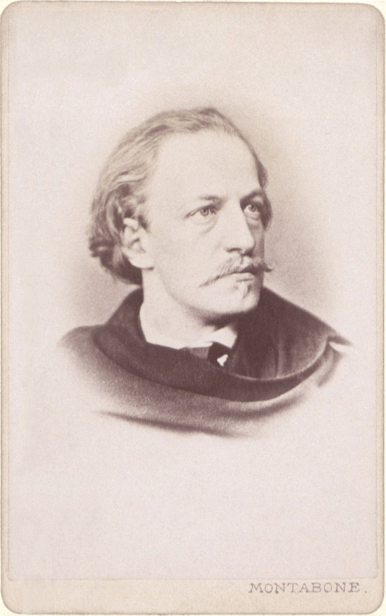 Władysław Tarnowski - photo by Luigi Montabone (1852-1875), Florence, 1873. On the basis that photo was created figure by Jan Styfi in 1877.